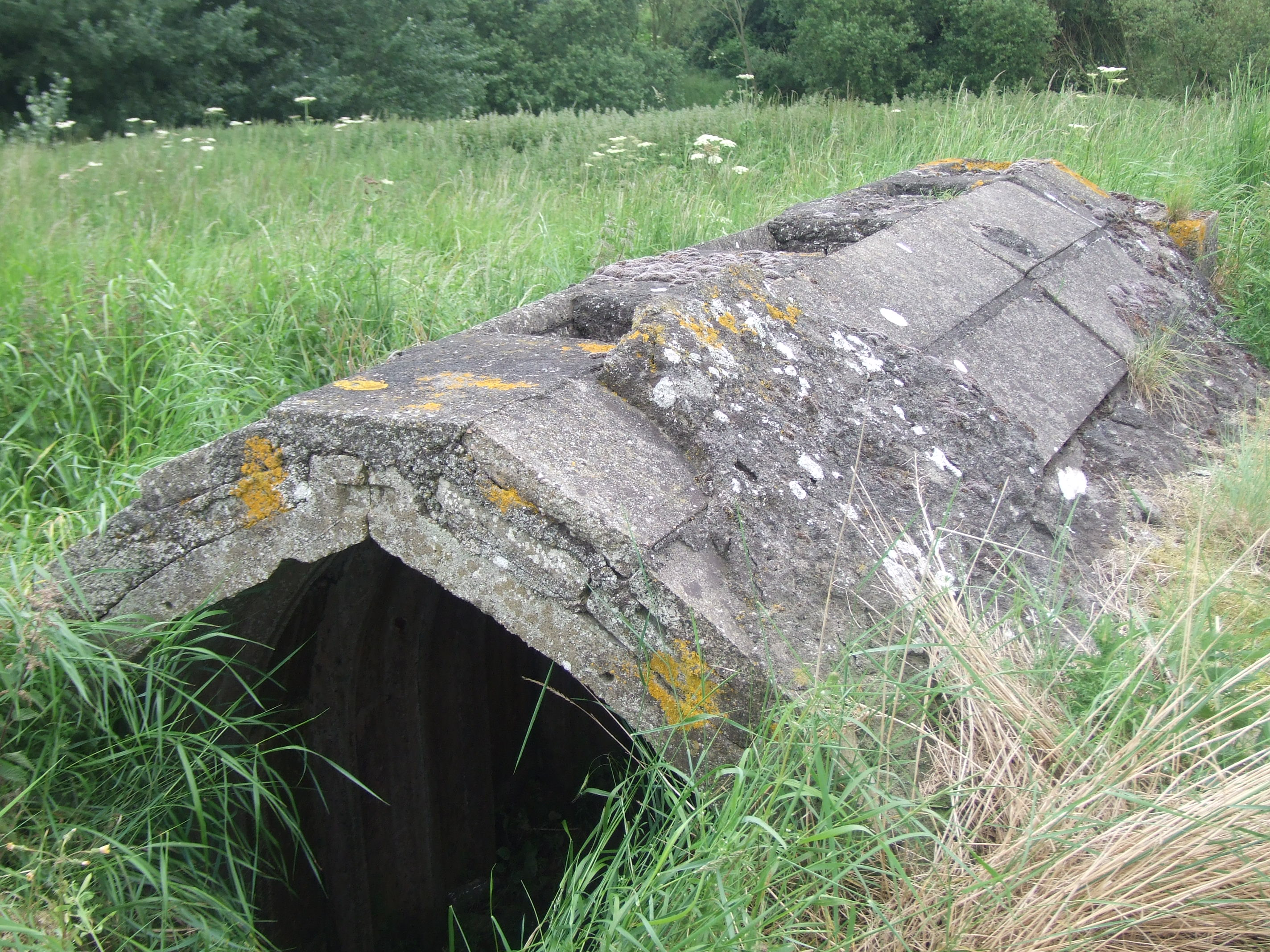 Ruck Machine Gun Post, overview. Heavily overgrown; anti-aircraft embrasures on top can be seen; horizontal embrasures, present on one side only, cannot be seen here